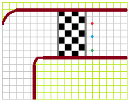 start line of the racetrack (corrida de vetores) game.